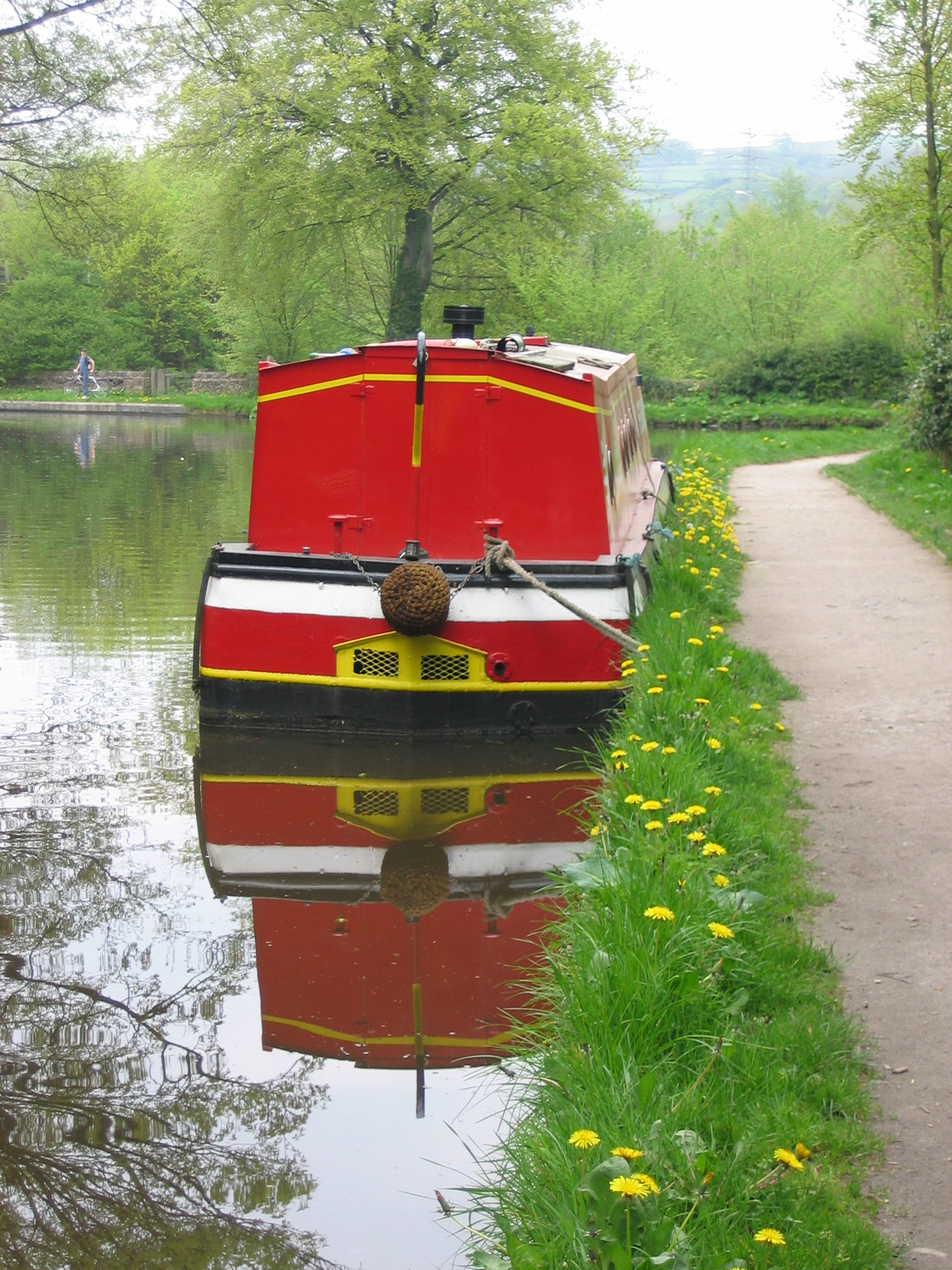 Narrowboat, Peak Forest Canal, Whaley Bridge, Derbyshire, England